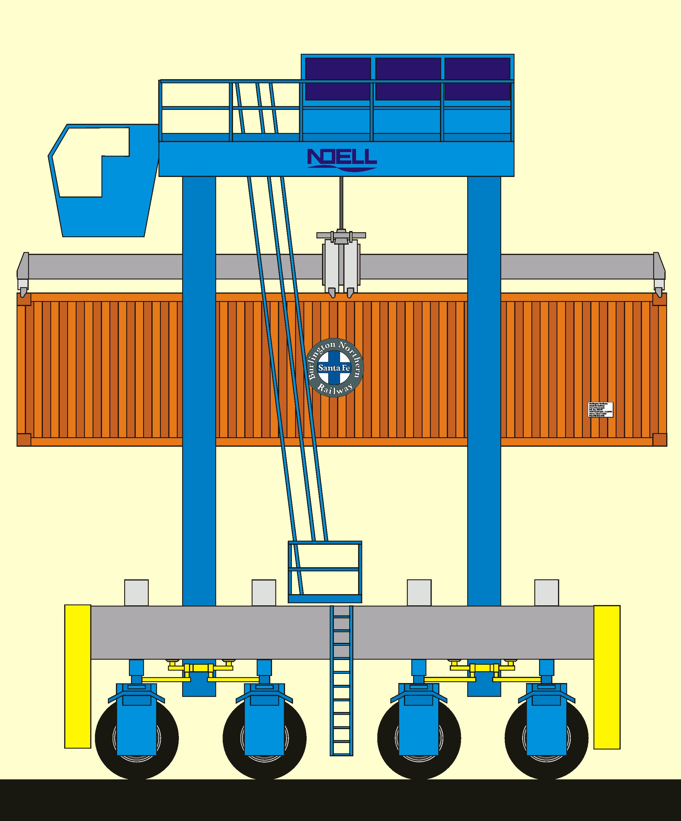 Drawing of a straddle carrier (van carrier). Originally uploaded to the German Wikipedia by Tom Tom and uploaded to Wikimedia Commons by Garitzko.